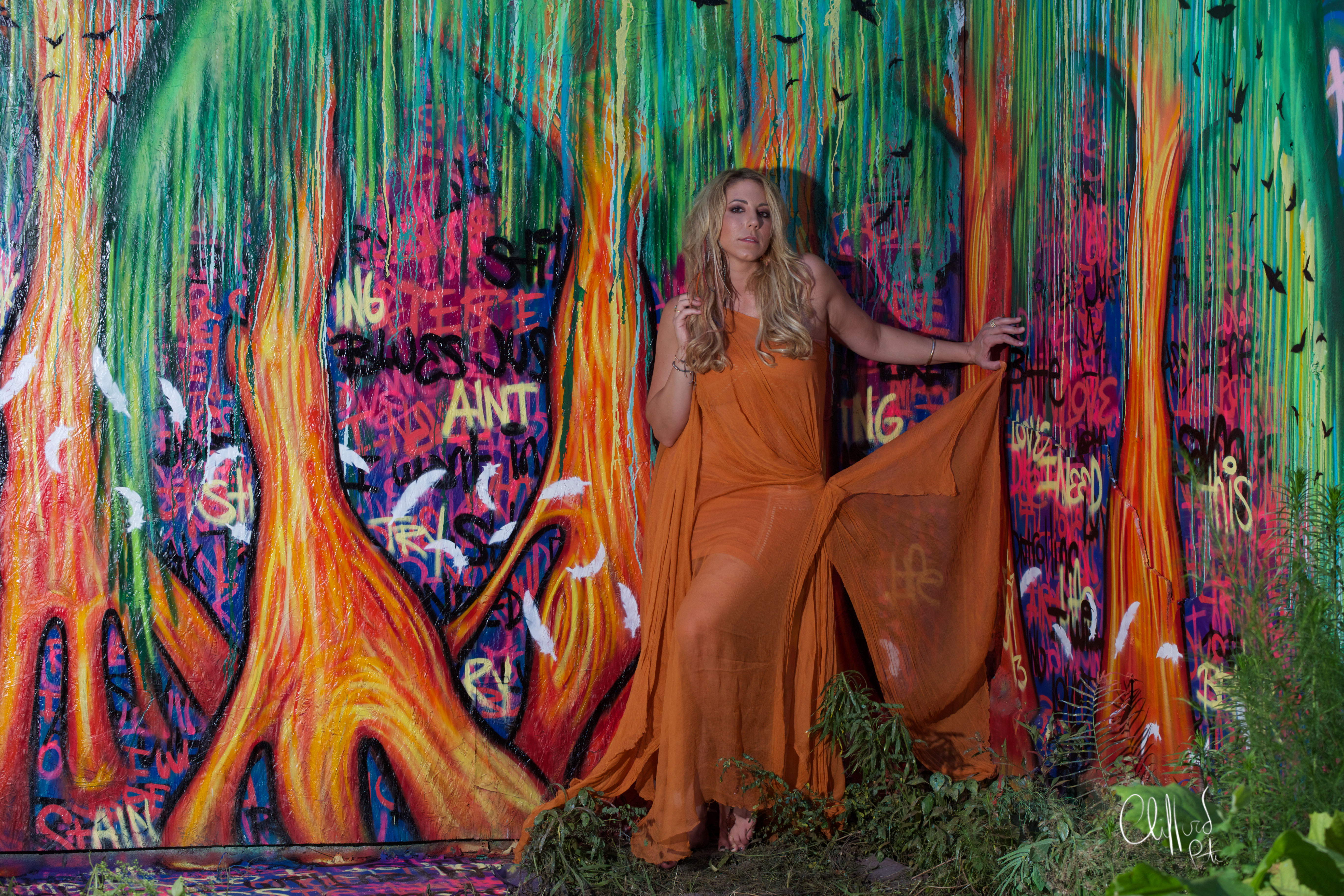 Singer/songwriter Elise Testone posing in front of graffiti.